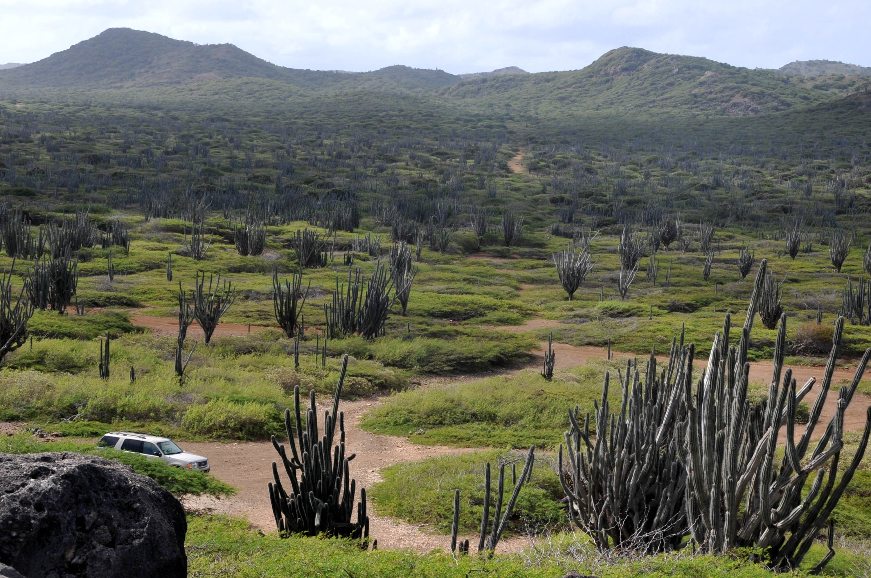 OVERALL VIEW WITH ABUNDANT CACTUS AND TWO PEAKS WHICH ARE USED FOR CLIMBING BY TOURIST AND LOCALS